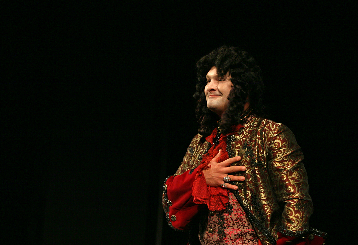 Paweł Podgórski as Leporello in "Dangerous Liaisons" in Komedia Theatre in Warsaw, 24 Oct 2008.